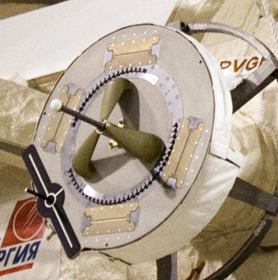 None.